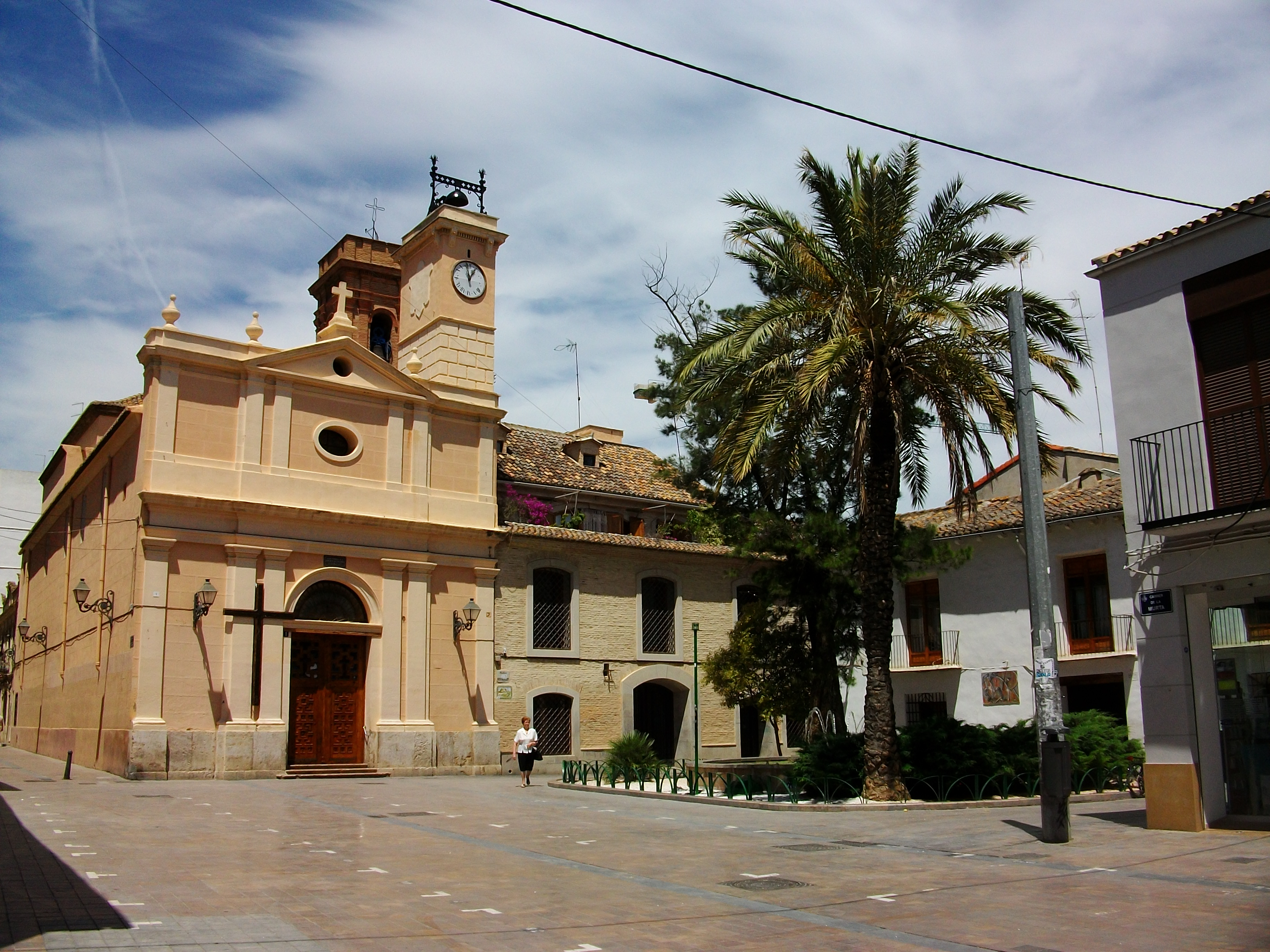 Square of Benimaclet.